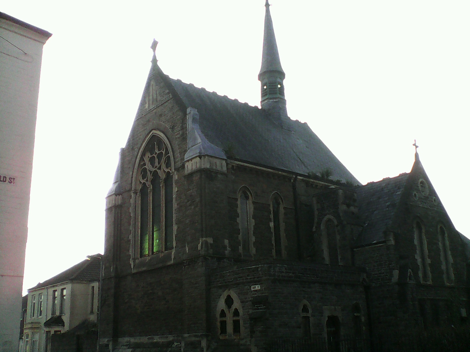 St Anne's Church, Croft Street, Cardiff. Disused since 2015.